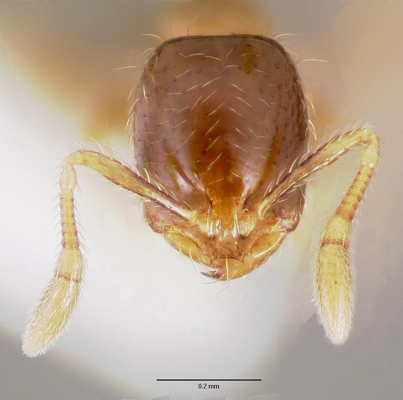 Head view of ant Solenopsis mameti specimen casent0005972.